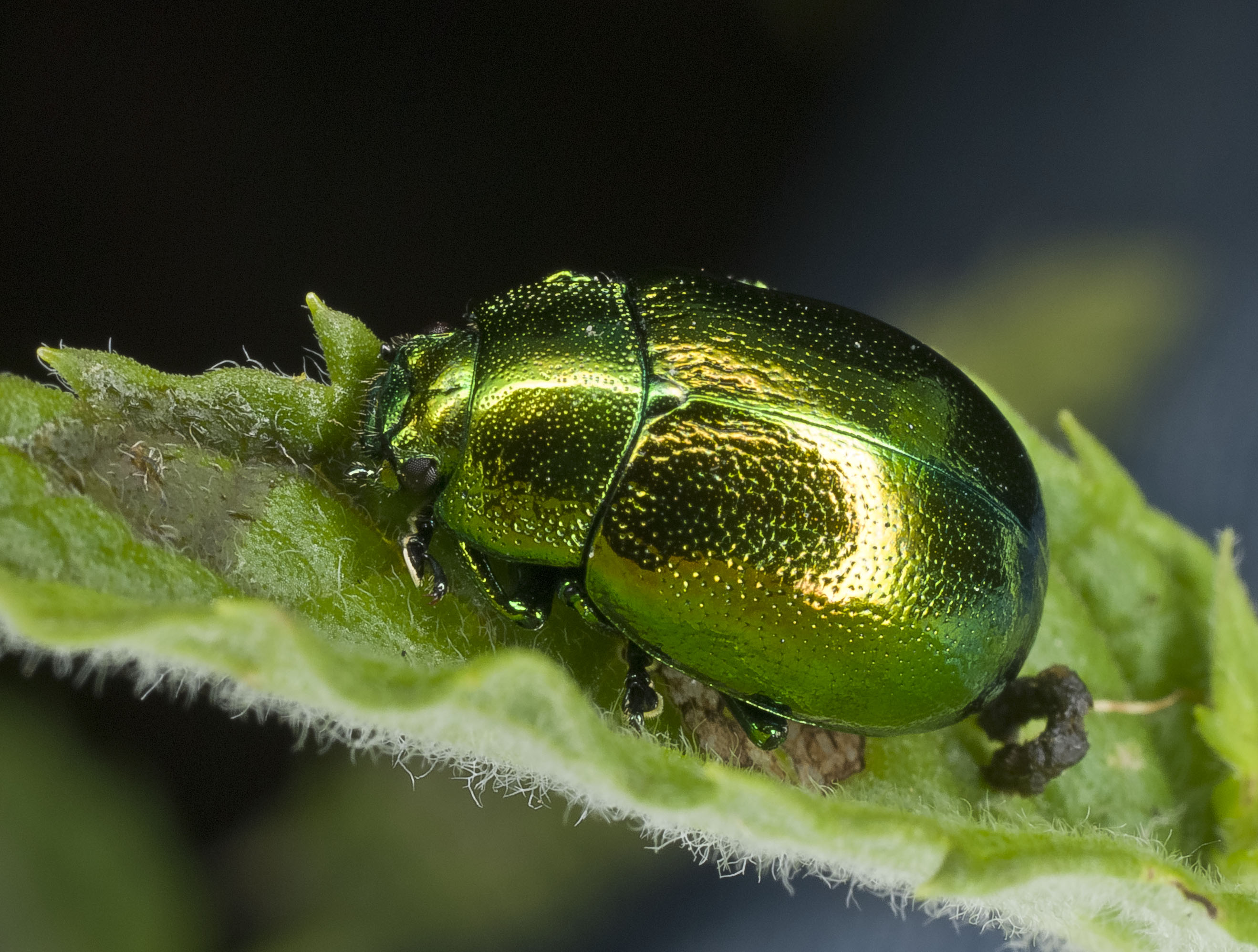 Chrysolina herbacea, Stuttgart, Germany (thanks to Benutzer:geaster for the identification)